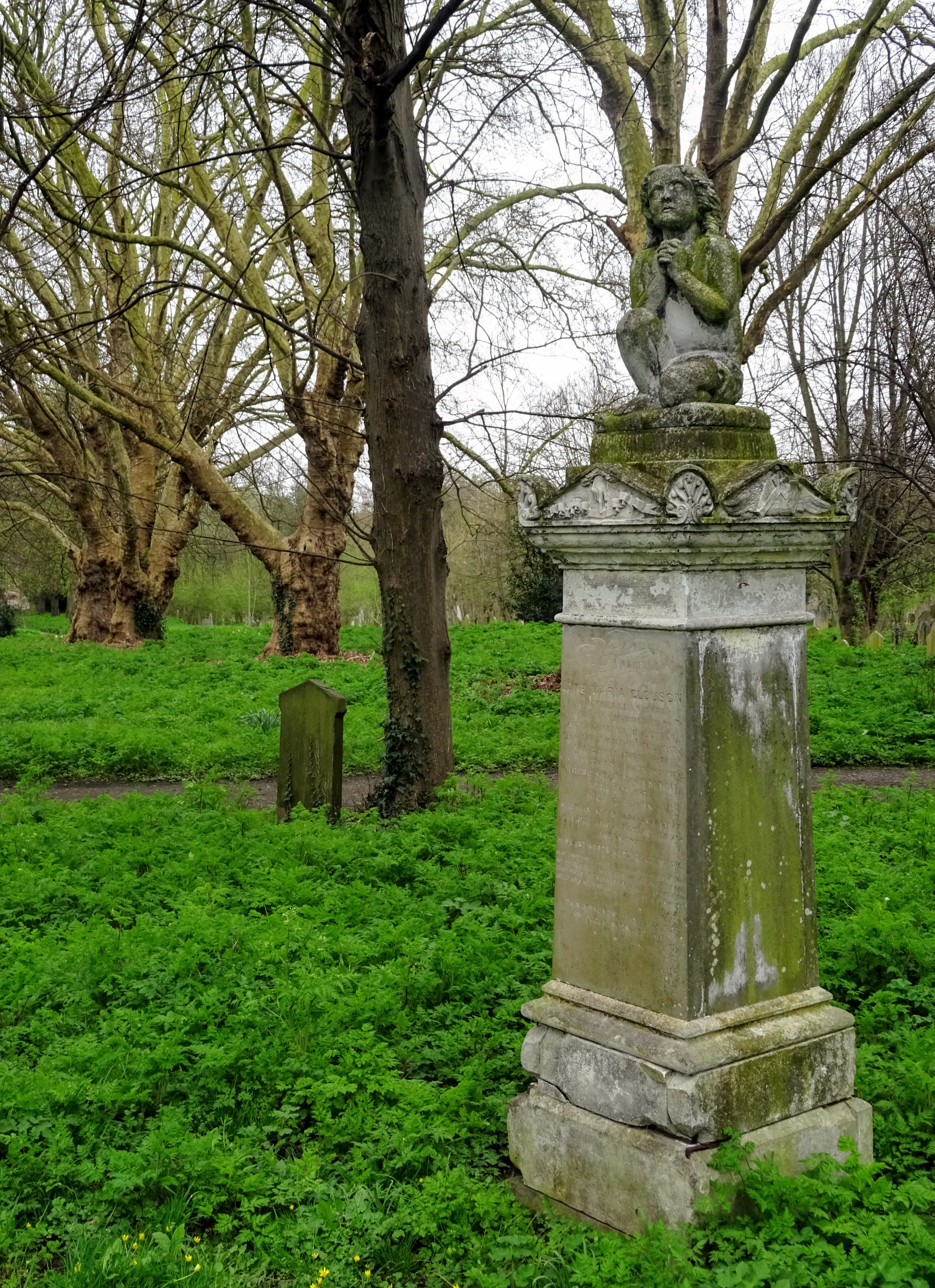 A monument commemorating the murder of Jane Clouson (1871). It currently stands in Brockley Cemetery. Photographed on 15 April 2018. The statuette that tops the memorial is a copy of Luigi Pampaloni's Prayer or Samuel in Prayer, now in the Nervi Galleria d’Arte Moderna, Genoa.